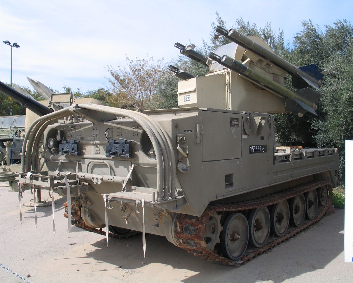 Description: M730 Guided Missile Equipment Carrier (Chaparral) at Muzeyon Heyl ha-Avir, Hatzerim, Israel. 2006. Source: Photo by me, User:Bukvoed.